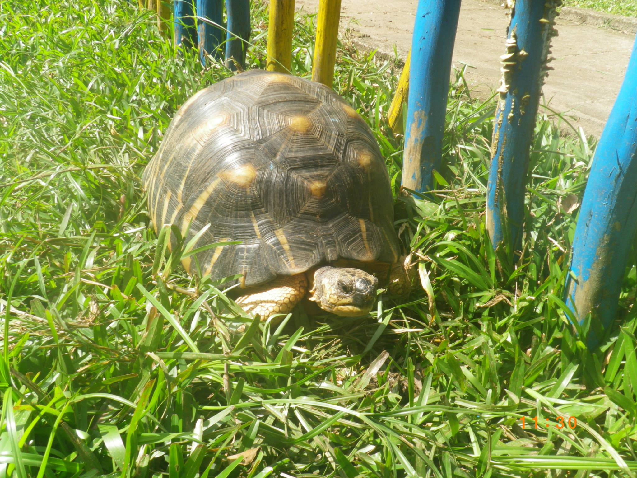 This is an image with the theme "Play" from: Madagascar